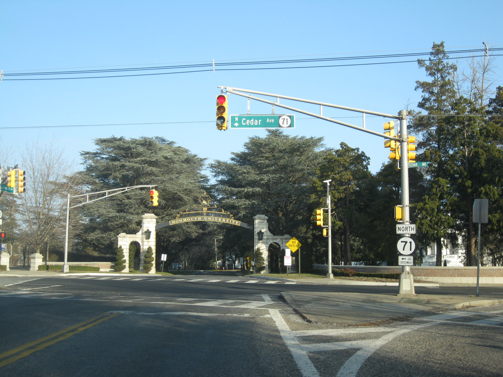 New Jersey State Route 71 heading northbound at Monmouth University in West Long Branch, New Jersey.